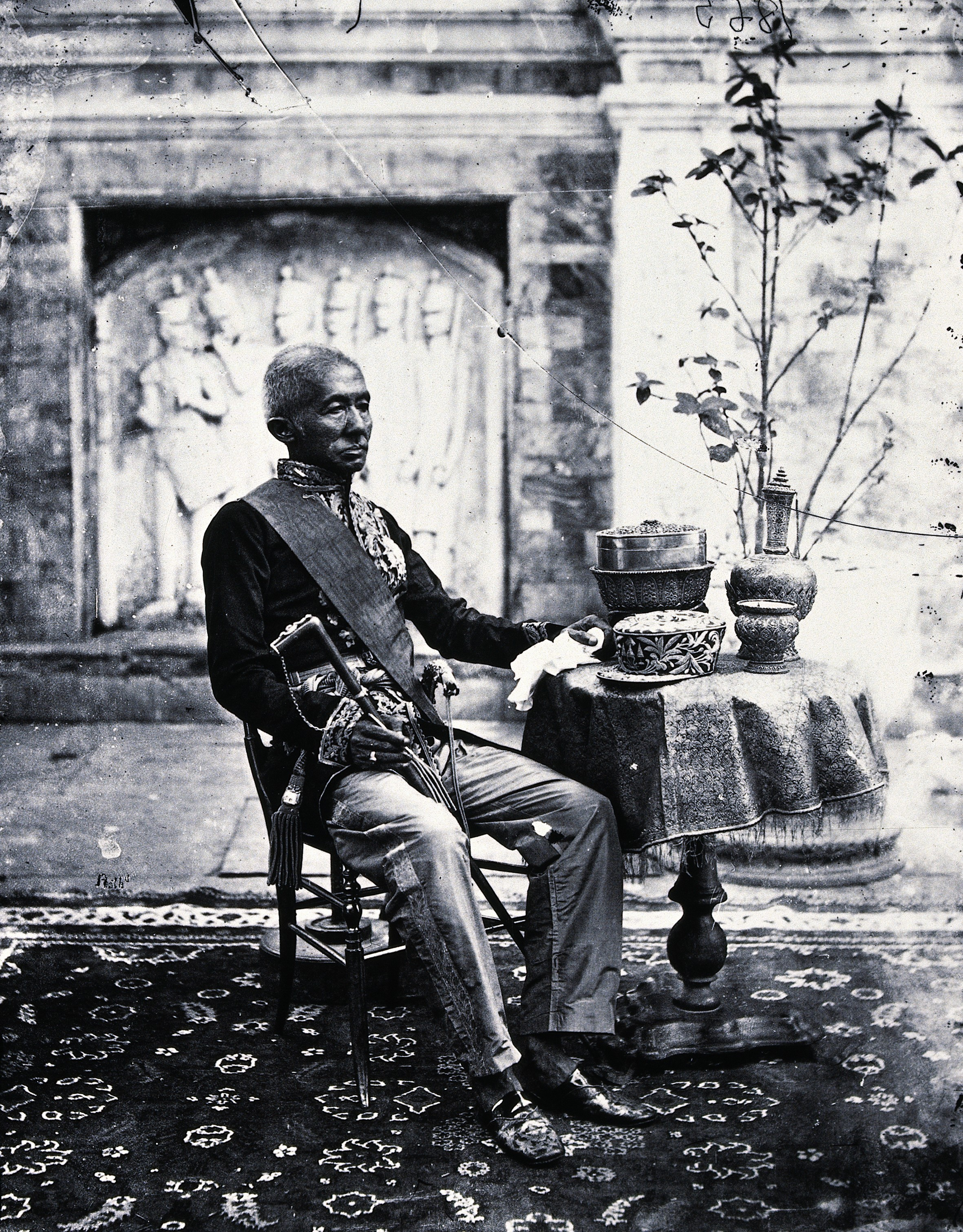 The 1st King of Siam, King Mongkut, in western style state robes, Bangkok, Siam Iconographic Collections Keywords: name; Portraits; Royal; J. Thomson; Royalty; Costume; Portrait; Clothing; Clothes